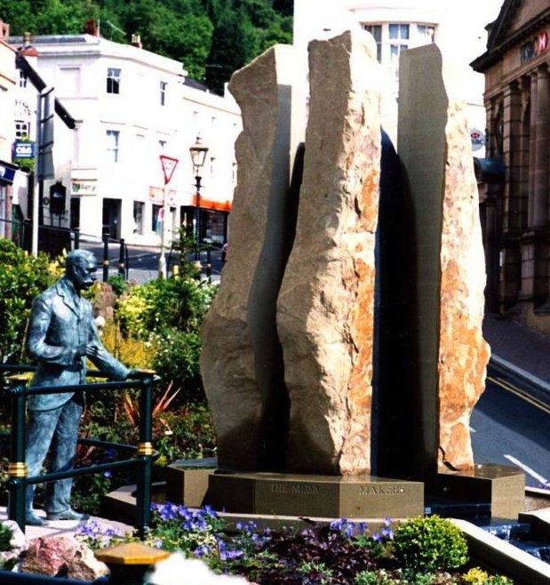 Photograph of the Enigma Fountain with statue of Edaward Elgar